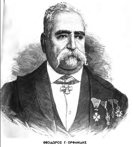 Poikilē stoa: ethnikē eikonographēnenē epetēris ... Etos 1-16, 1881-1914 (1894) Author: Ioannes A. Arsenēs , Michael A . Raphaelobits Volume: 10 Publisher: Estia Year: 1894 Possible copyright status: NOT_IN_COPYRIGHT Language: Greek Digitizing sponsor: Google Book from the collections of: Harvard University Collection: americana